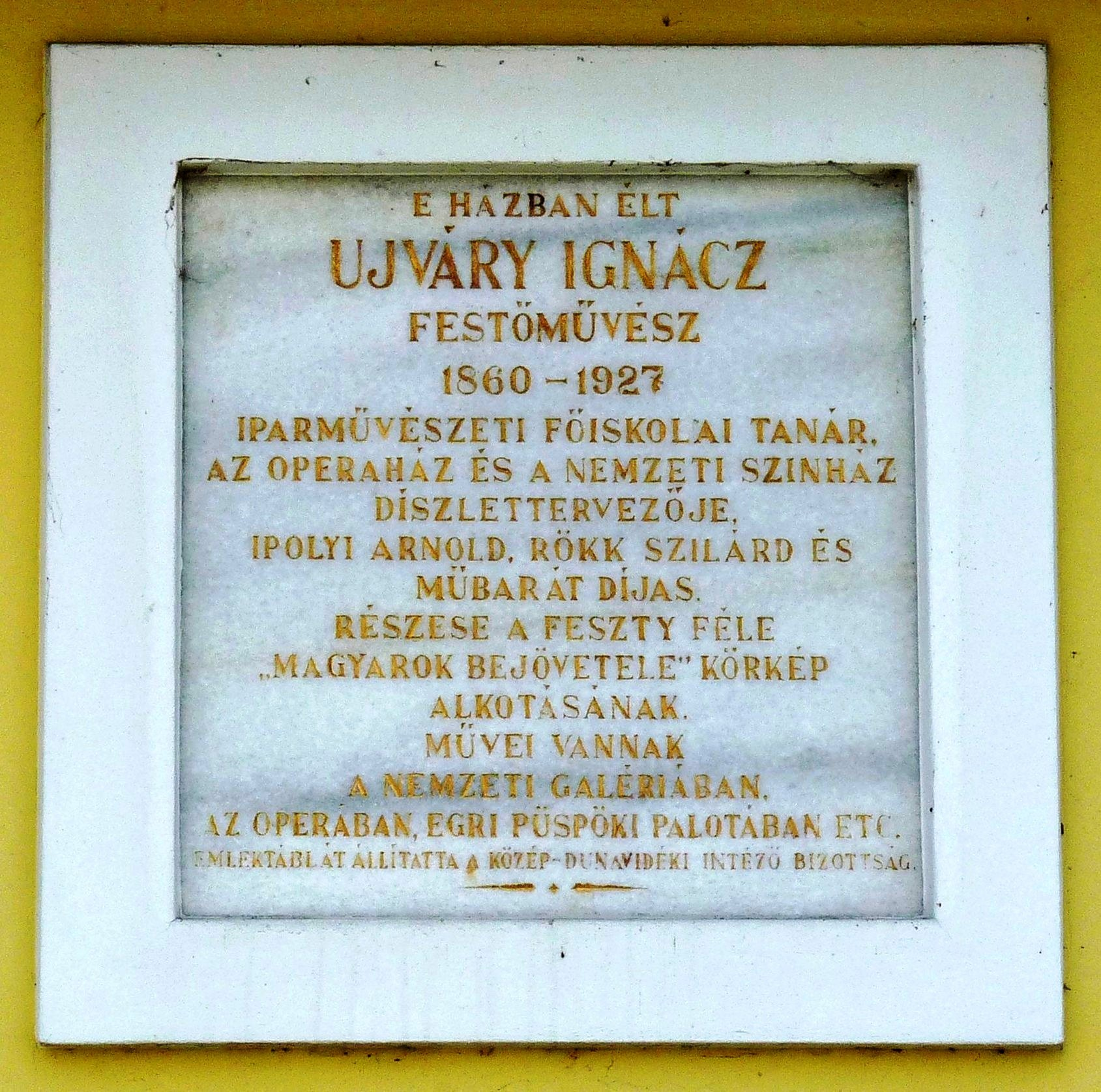 Commemorative plaque to Mr. Ignác Ujváry (1860-1927) Hungarian artist, affixed on the wall of their former home in Budapest. (Kisoroszi [Hungary], Széchenyi Street Nr 153/A)